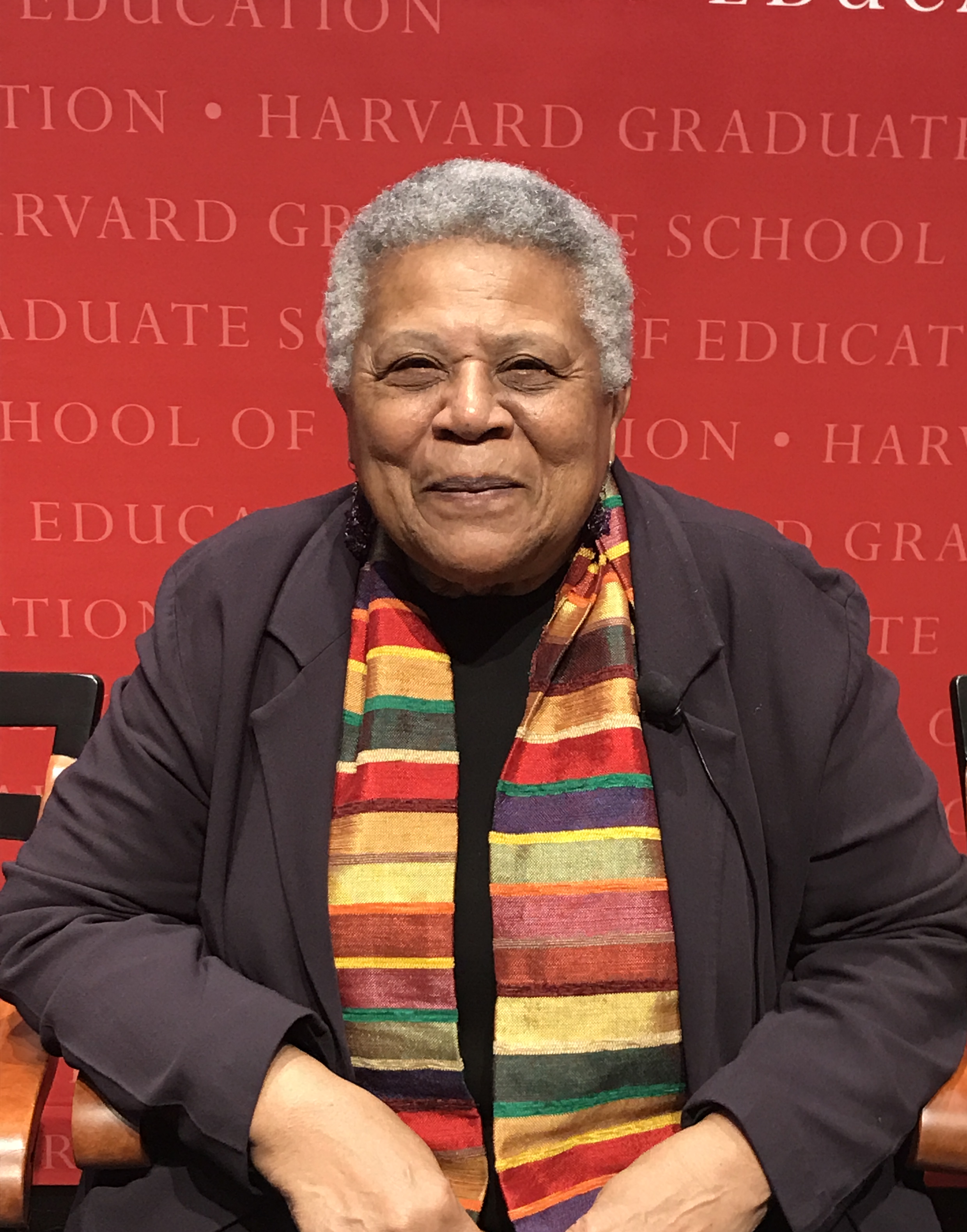 Minnijean Brown-Trickey speaking at the Harvard Graduate School of Education, February 9, 2018.